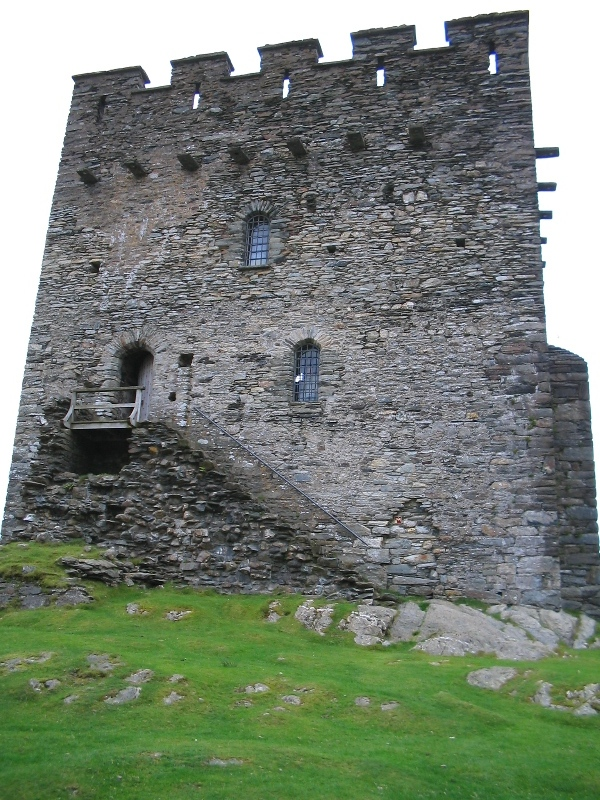 Photo of Dolwyddelan Castle taken by Gwen Hitchcock, who has agreed for its release into the GFDL